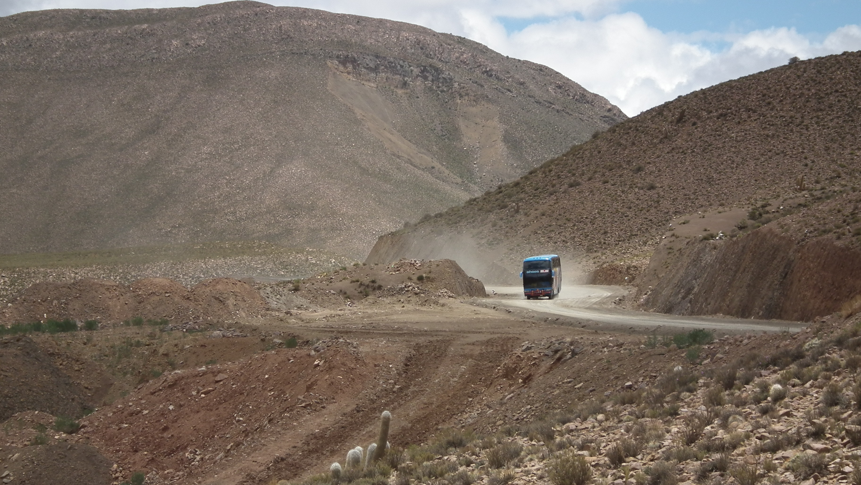 Ruta 5 in Bolivia between Potosí and Uyuni (Tomave Municipality)